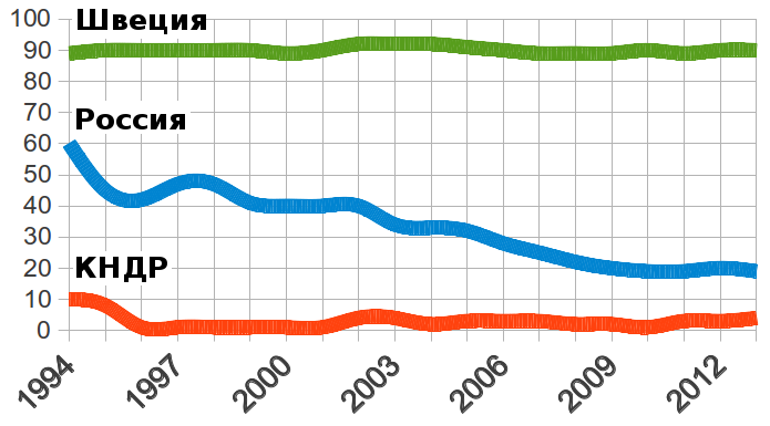 Level of freedom and editorial independence enjoyed by the press in Russia, North Korea and Sweden. The scale was inverted: result: = 100 - index. Levels of freedom are scored on a scale from 1 (least free) to 100 (most free). Source of data